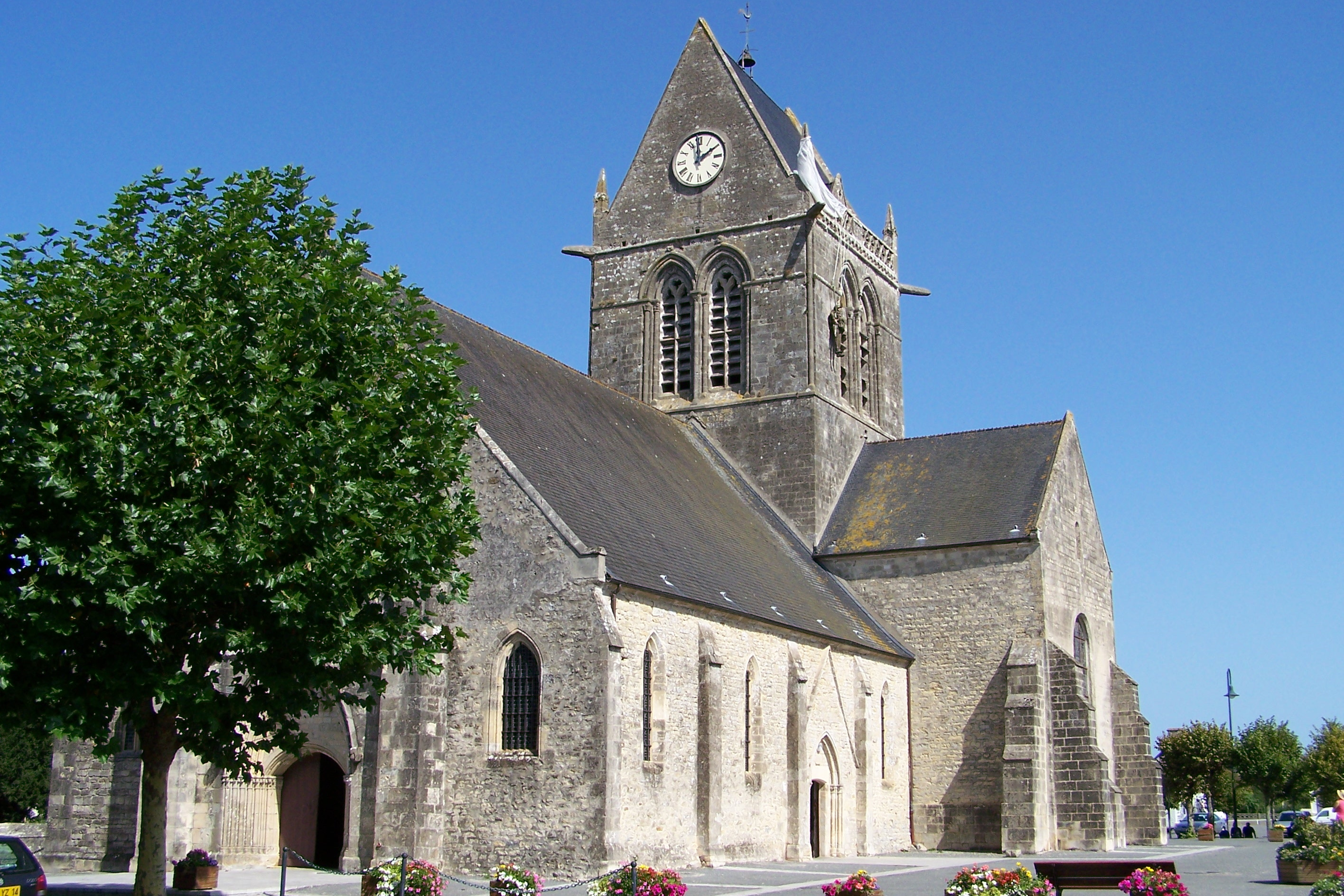 Church with Parachute Memorial to John Steele, Sainte-Mère-Église